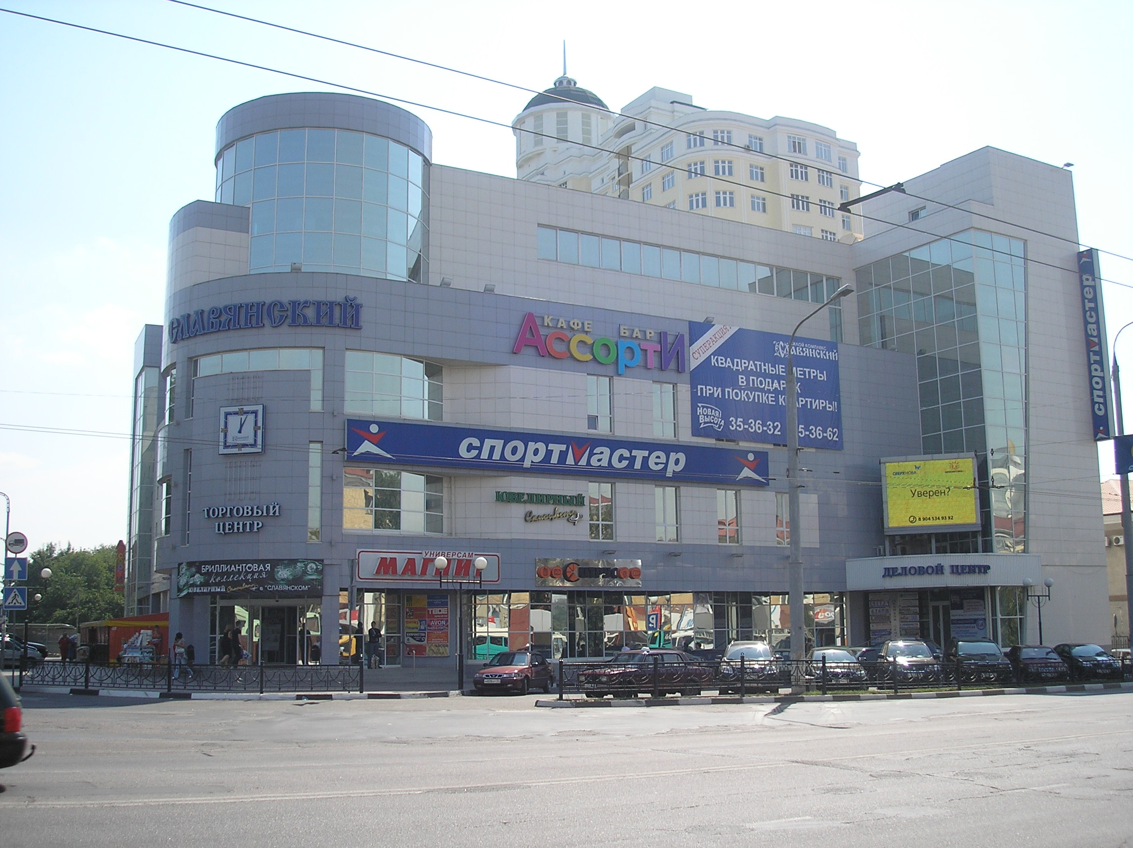 Торговый Центр "Славянский". г. Белгород